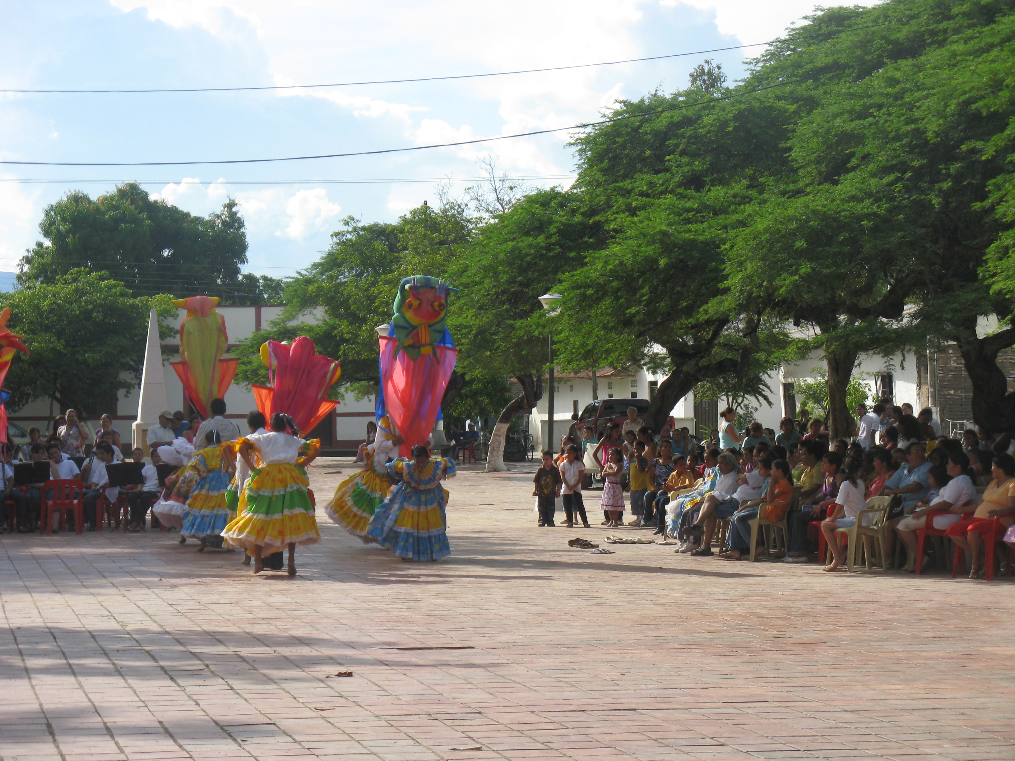 Traditional dance in the centre of Villa Vieja